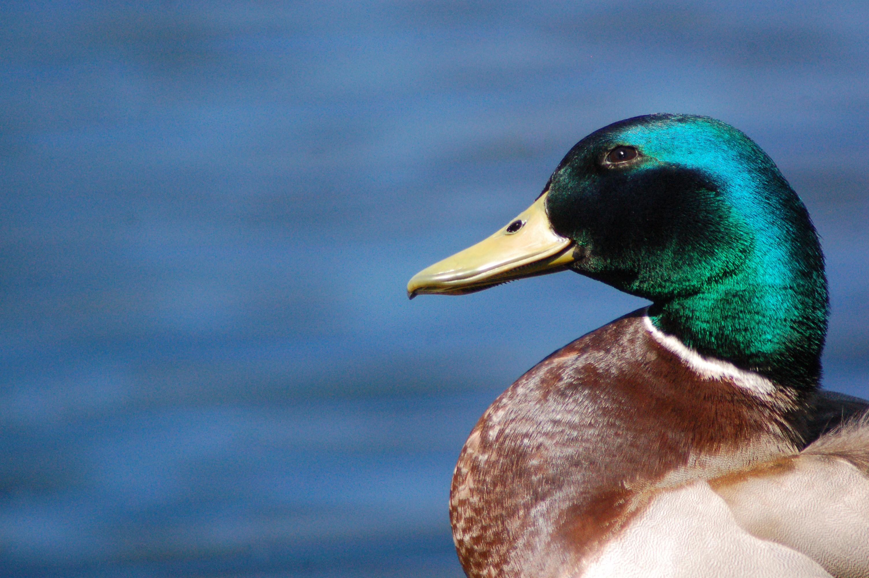 Closeup head shot of a male mallard duck.